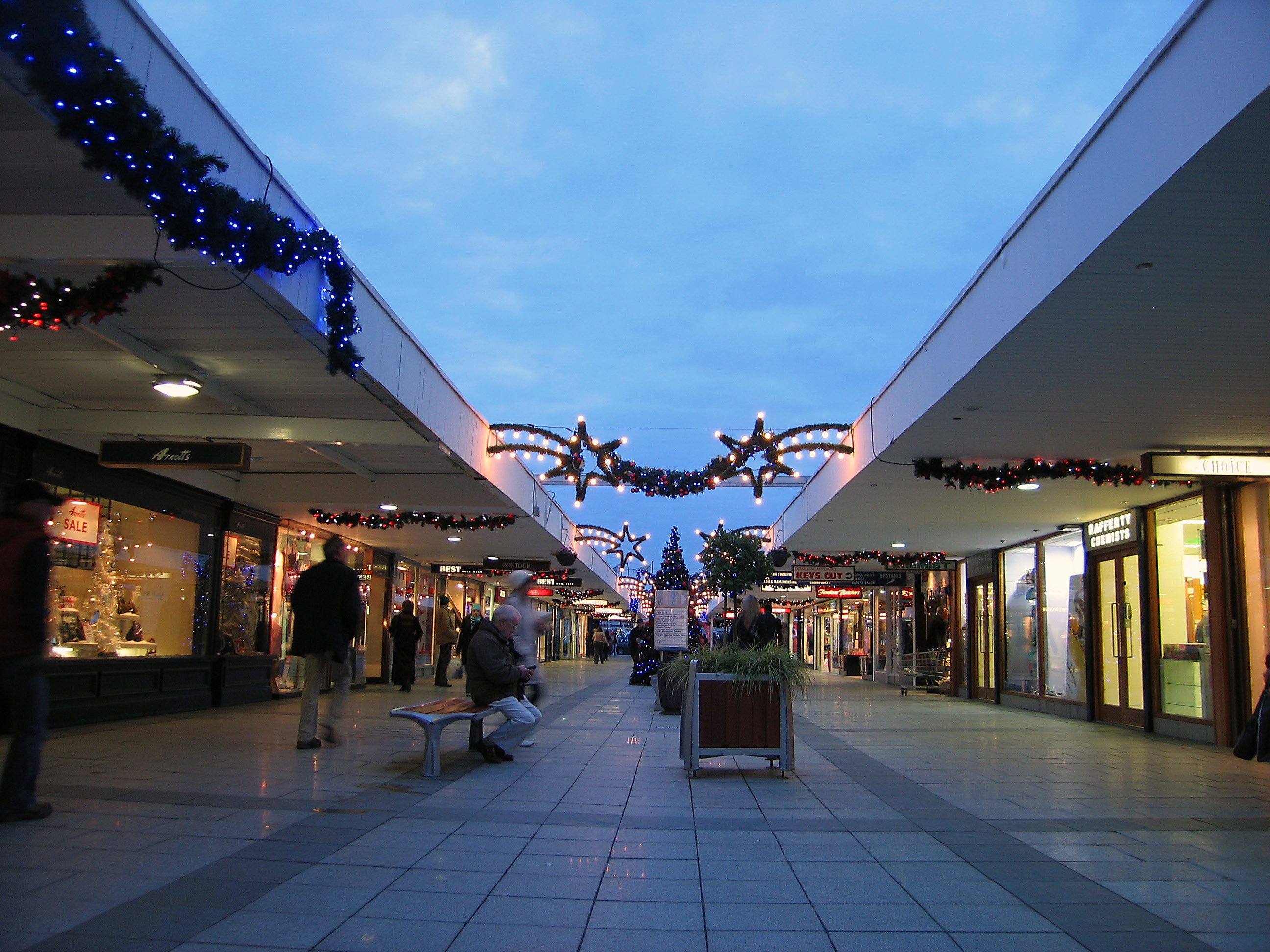 Stillorgan Shopping Centre, opened in 1966 and was the first shopping centre (or 'Mall') to be built in Ireland.